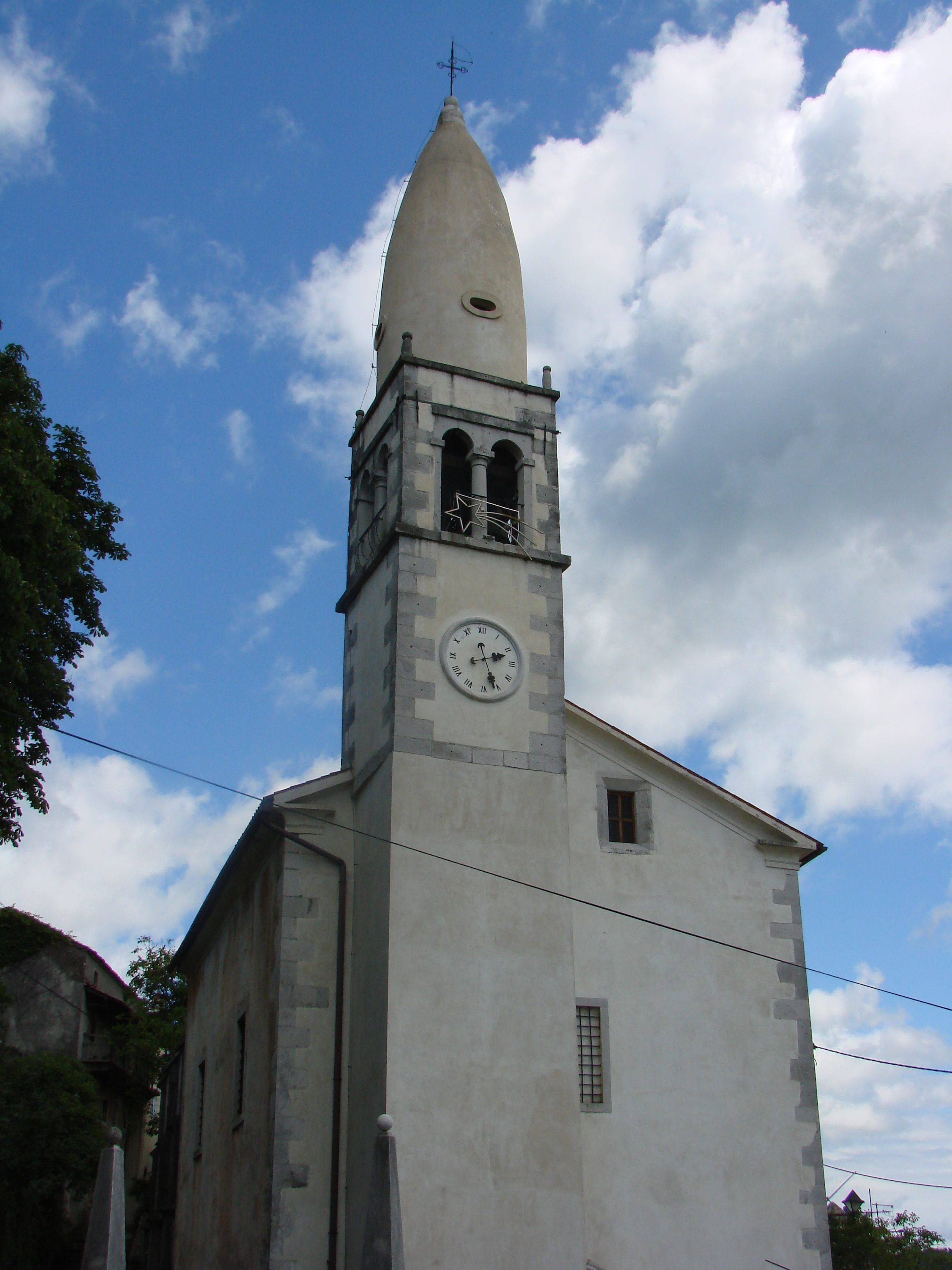 Church of Sant Daniel in Štanjel, Kras, Slovenia